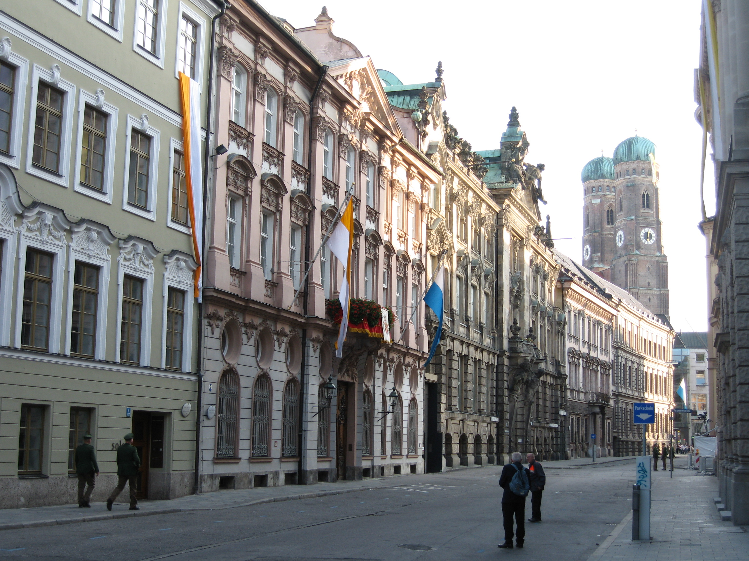 Palais Holnstein - Archespiscopial Palais at Kardianl-Faulhaber-Street in Munich, Bavaria during Apostolic Journey in Bavaria 2006